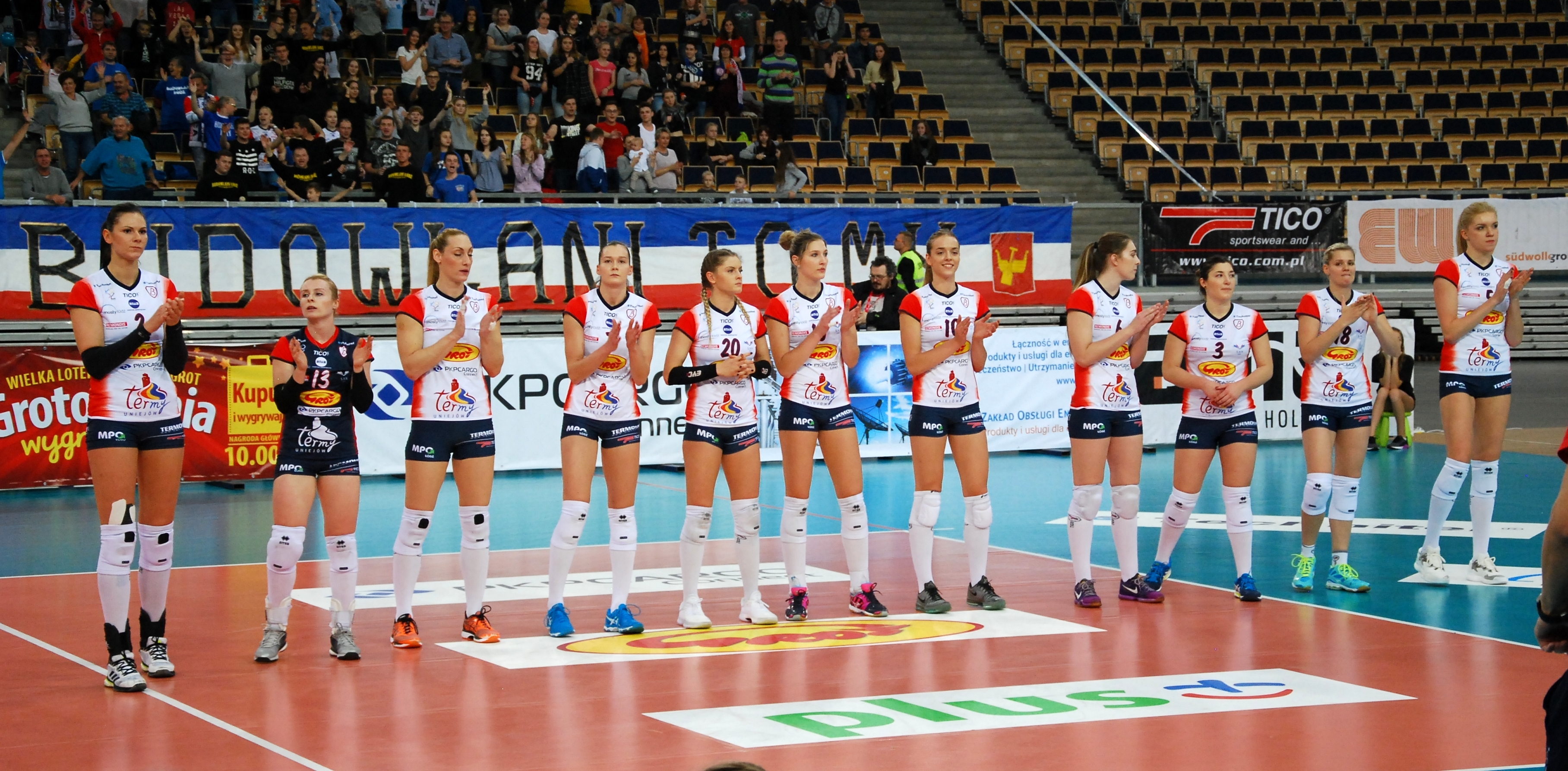 Budowlani Łódź 2017-2018